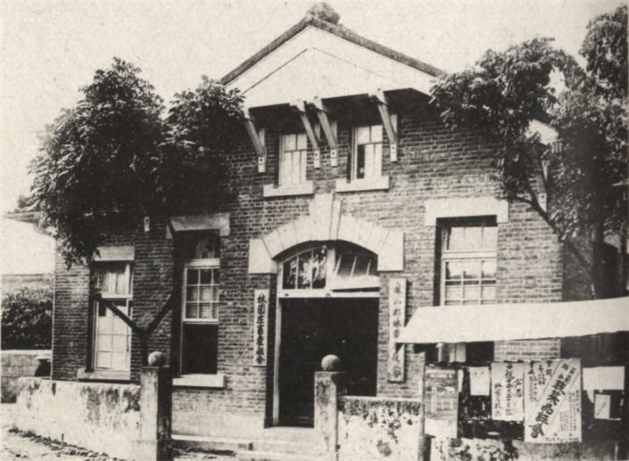 林園庄役場